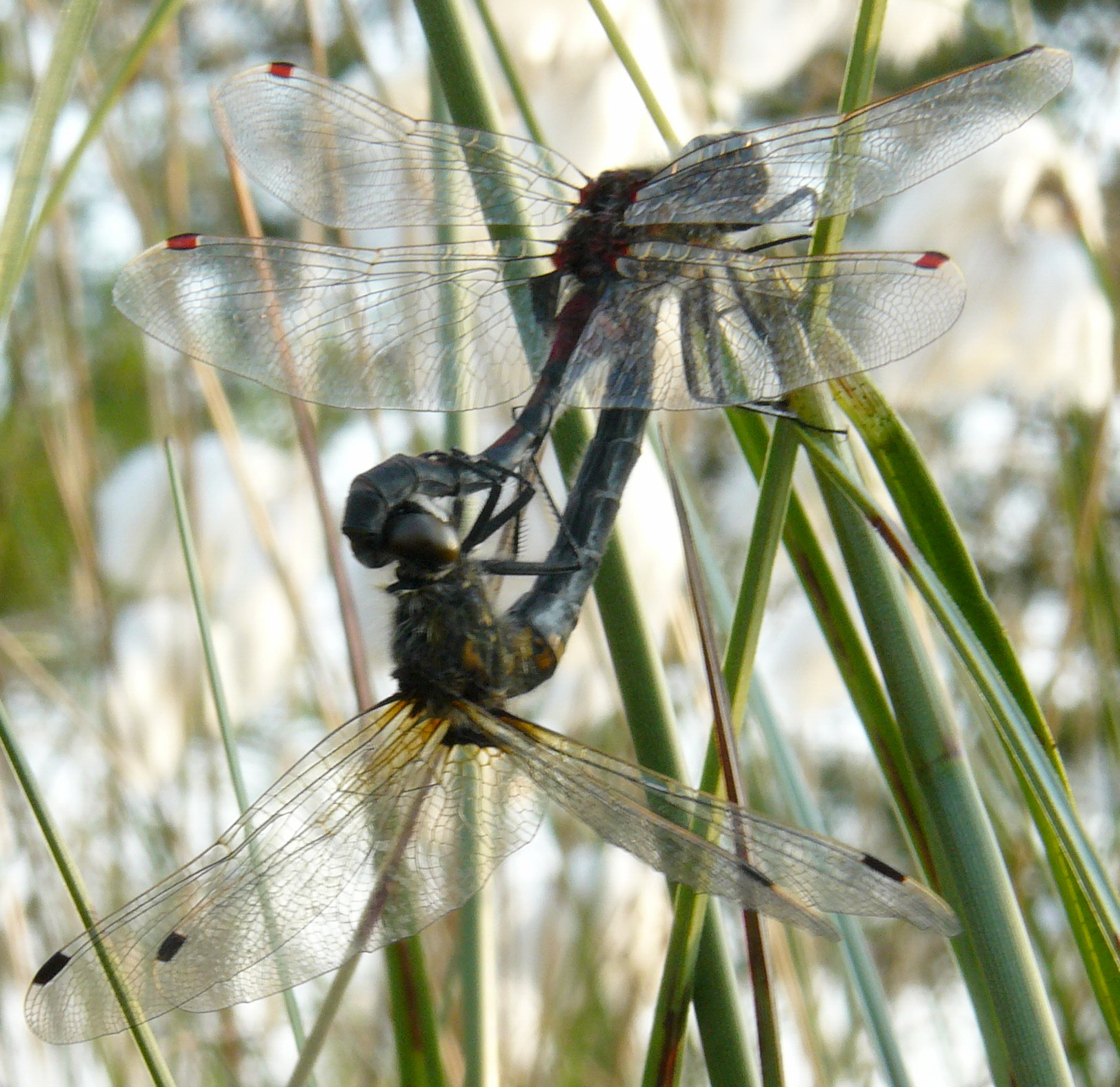 Couple Leucorrhinia rubicunda